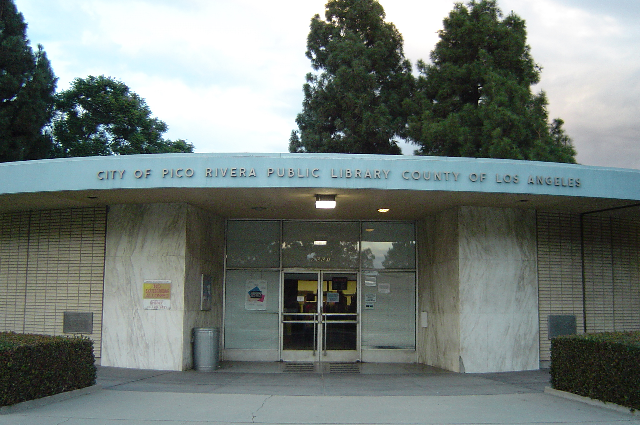 Pico Rivera Library - County of Los Angeles Public Library